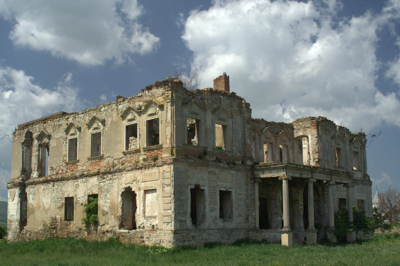 Haller Castle, Coplean, Cluj, Romania